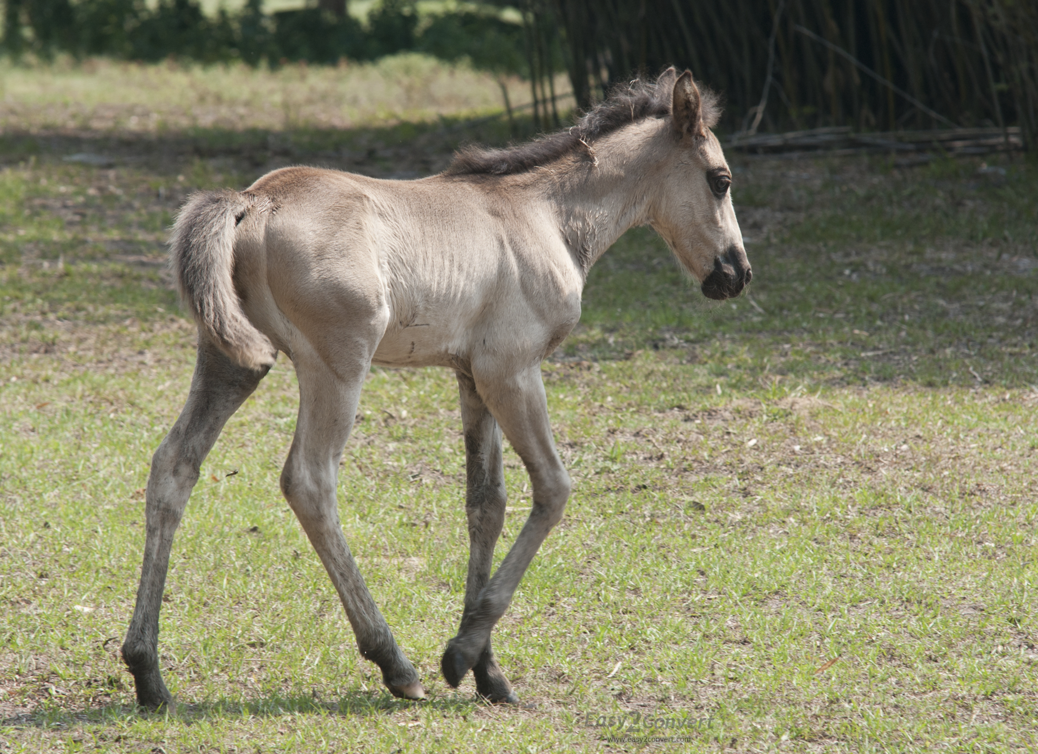 Wild horse foal on Cumberland Island — Cumberland Island National Seashore, Georgia.